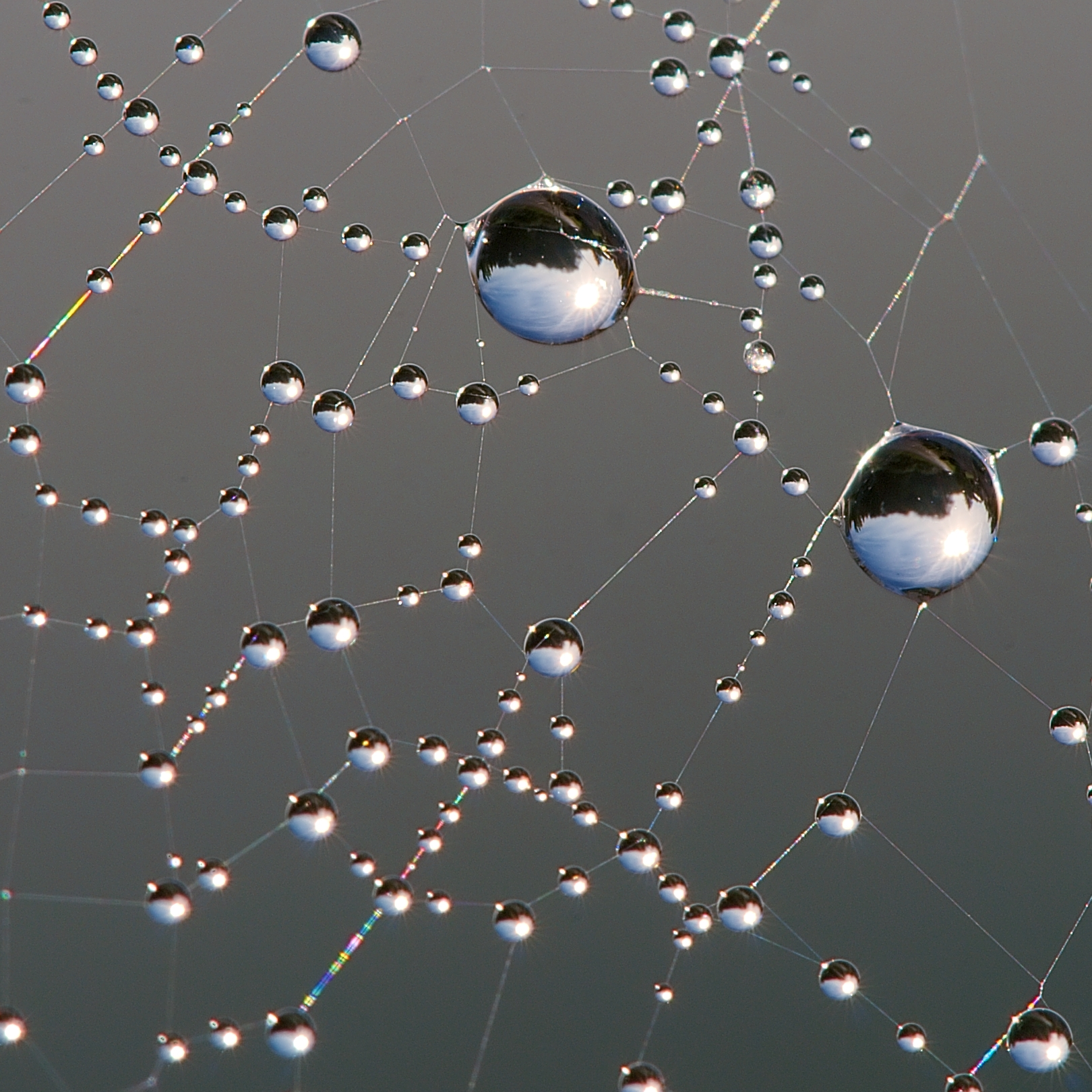 Spider web at sunrise